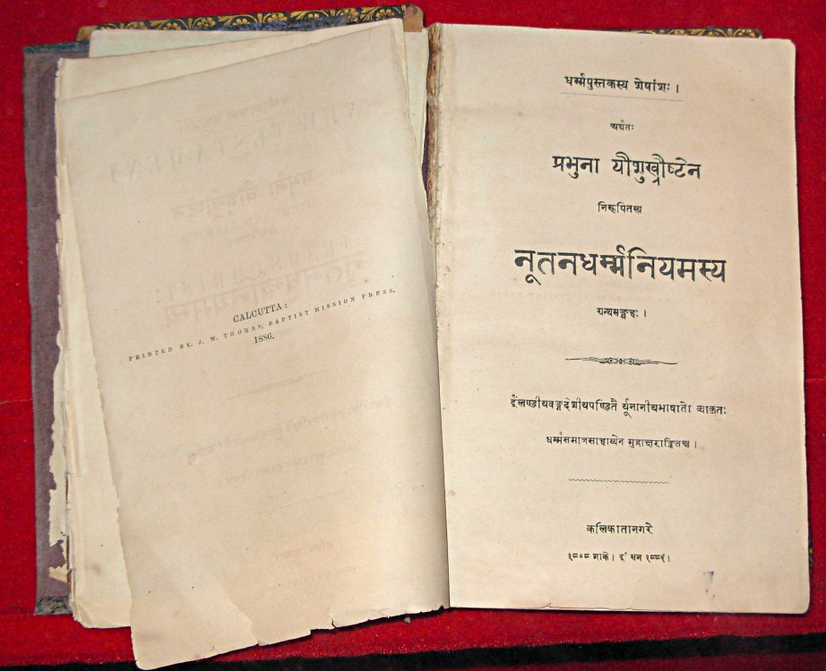 Sanskrit (Indian Vedic language) Bible printed in Calcutta (Kolkata), India, in 1886. Now at Krishnapuram Palace museum, Kayamkulam, Kerala.